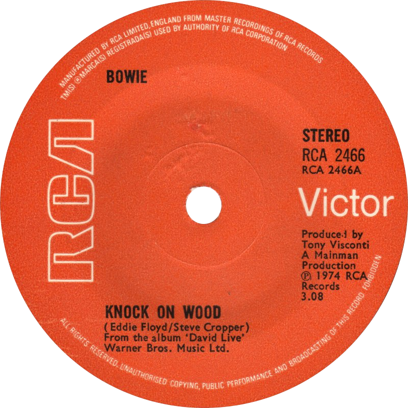 UK vinyl single release (RCA 2466) of "Knock on Wood" by David Bowie, also an album track of David Live (1974)